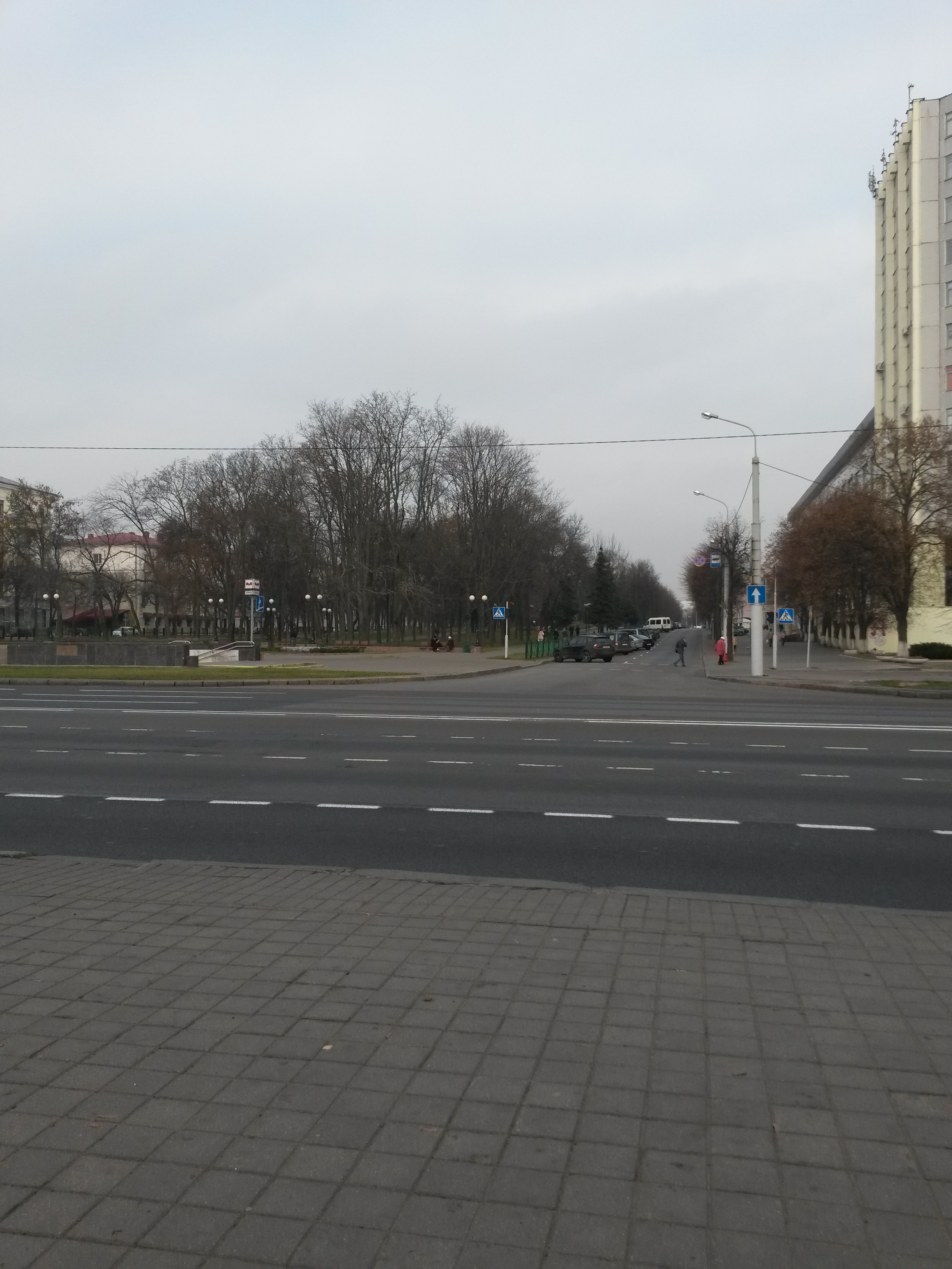 Tolbukhin boulevard in Minsk, Belarus